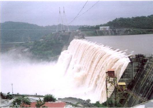 Sardar Sarrovar Dam in Gujarat, partially completed